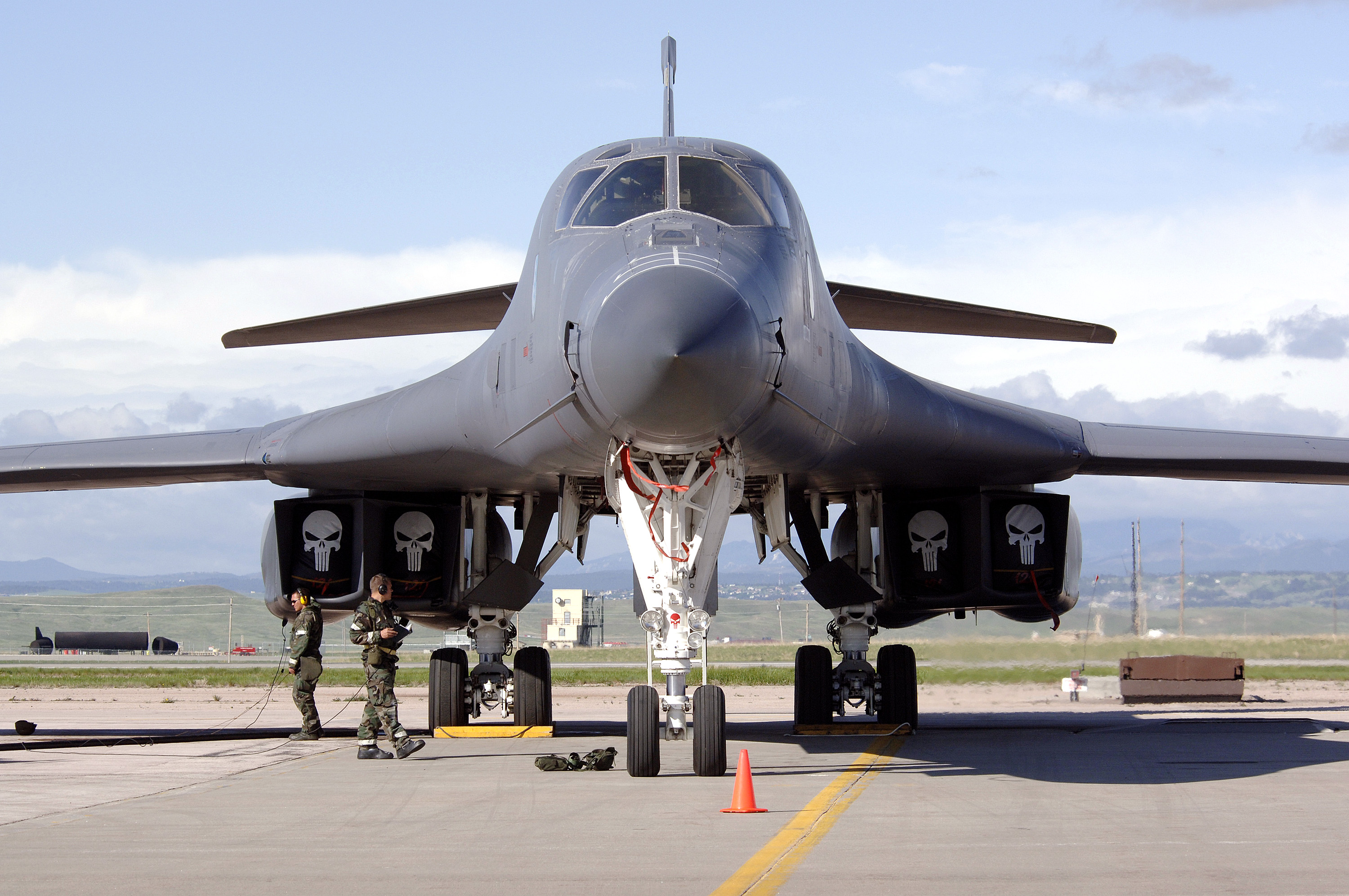 A B-1 Lancer awaits a pre-flight inspection at Ellsworth Air Force Base, S.D., on Tuesday, May 23, 2006. The base is undergoing an exercise named Badlands Express 06-03 in preparation for an operational readiness inspection in July. (U.S. Air Force photo/Senior Airman Michael B. Keller)(Released)